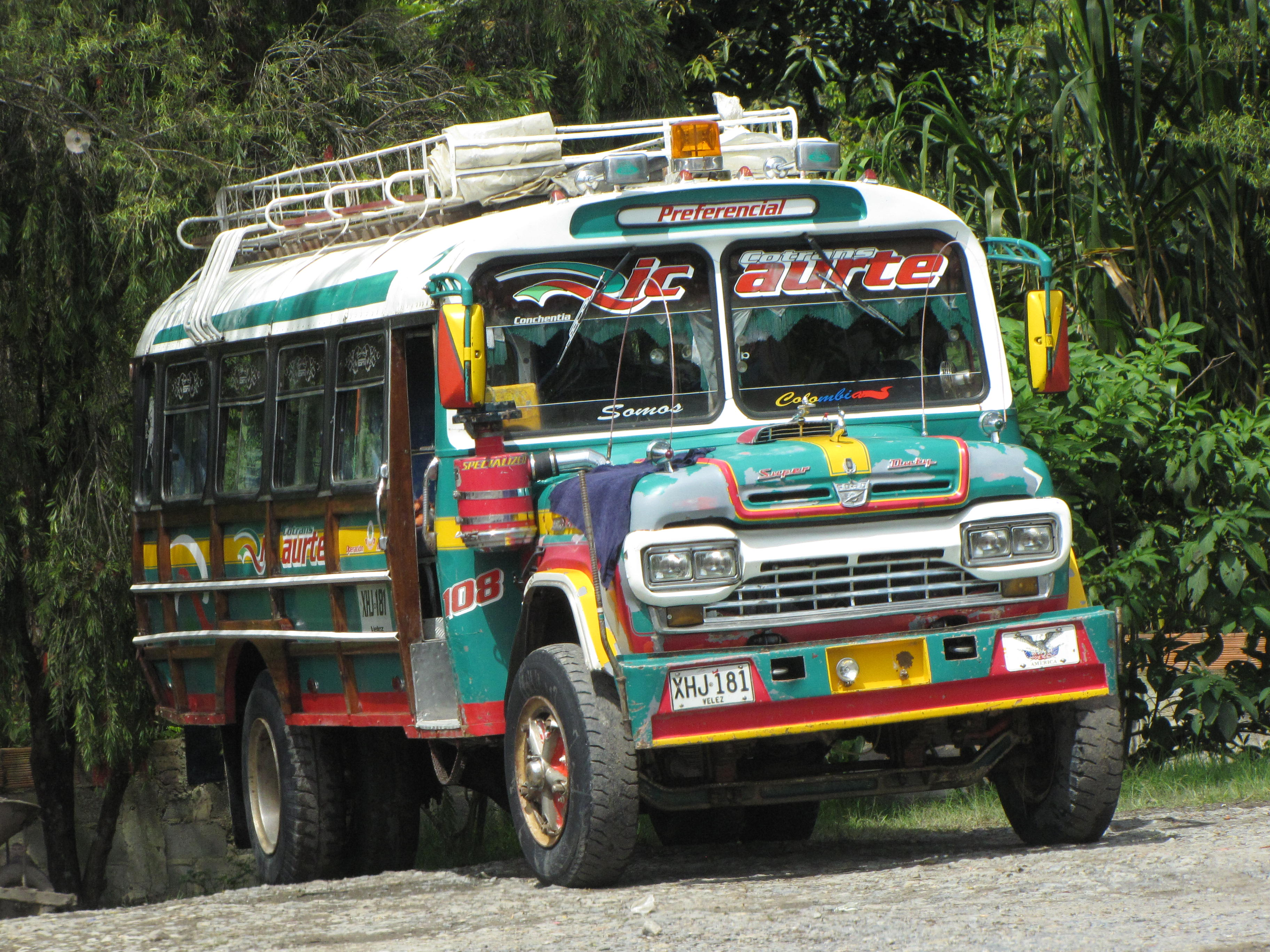 Chivas are used in rural areas of Colombia, they are characterized for being painted colorfully (usually with the yellow, blue, and red colors of the flags of Ecuador and Colombia) with local arabesques and figures. Most have a ladder to the rack on the roof which is also used for carrying people, livestock and merchandise.